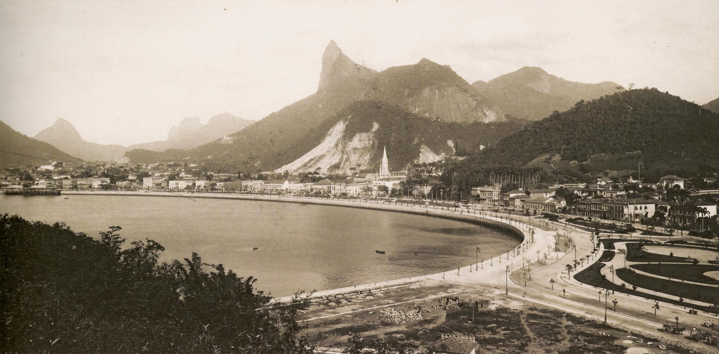 City of Rio de Janeiro, 1889.